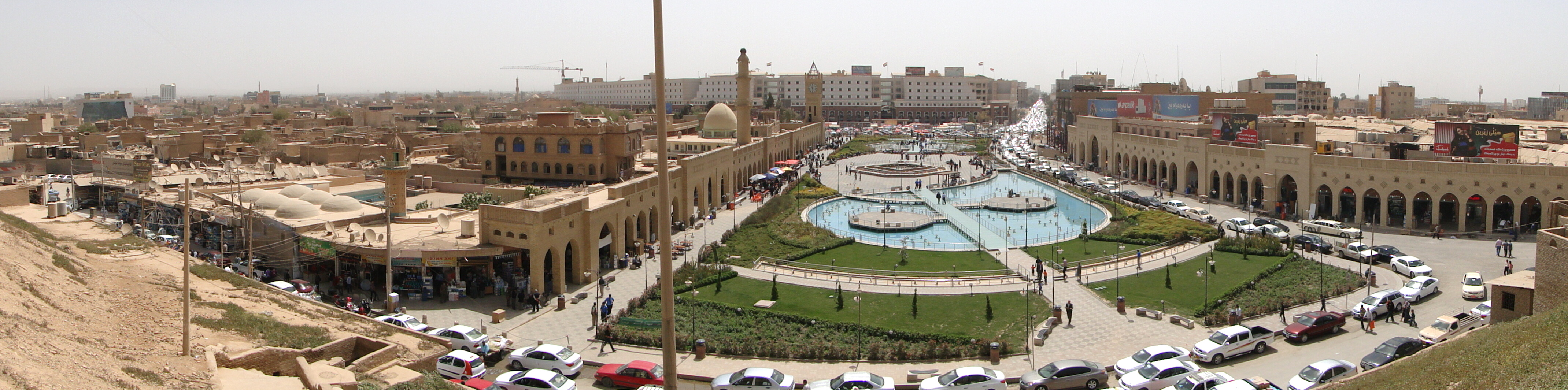 Panorama over City Center from Citadel - Erbil - Iraq